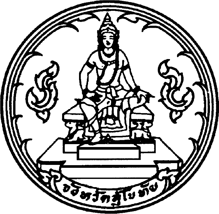 Provincial seal of Sukhothai province.